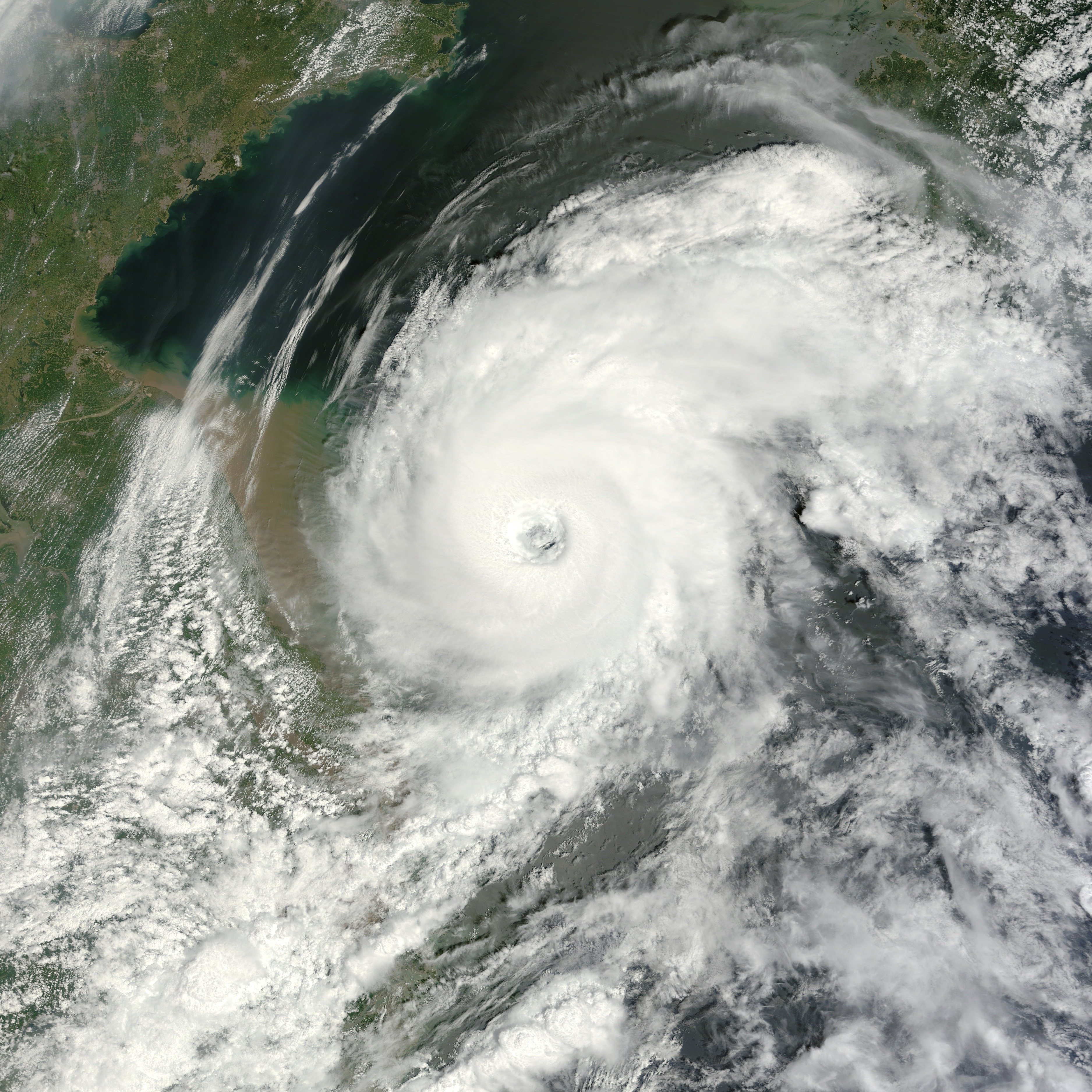 On August 2, 2012, Typhoon Damrey approached and made landfall over Jiangsu, China. Sporting a distinct eye in the Yellow Sea, Damrey was the strongest tropical cyclone to affect the area north of the Yangtze River since 1949.